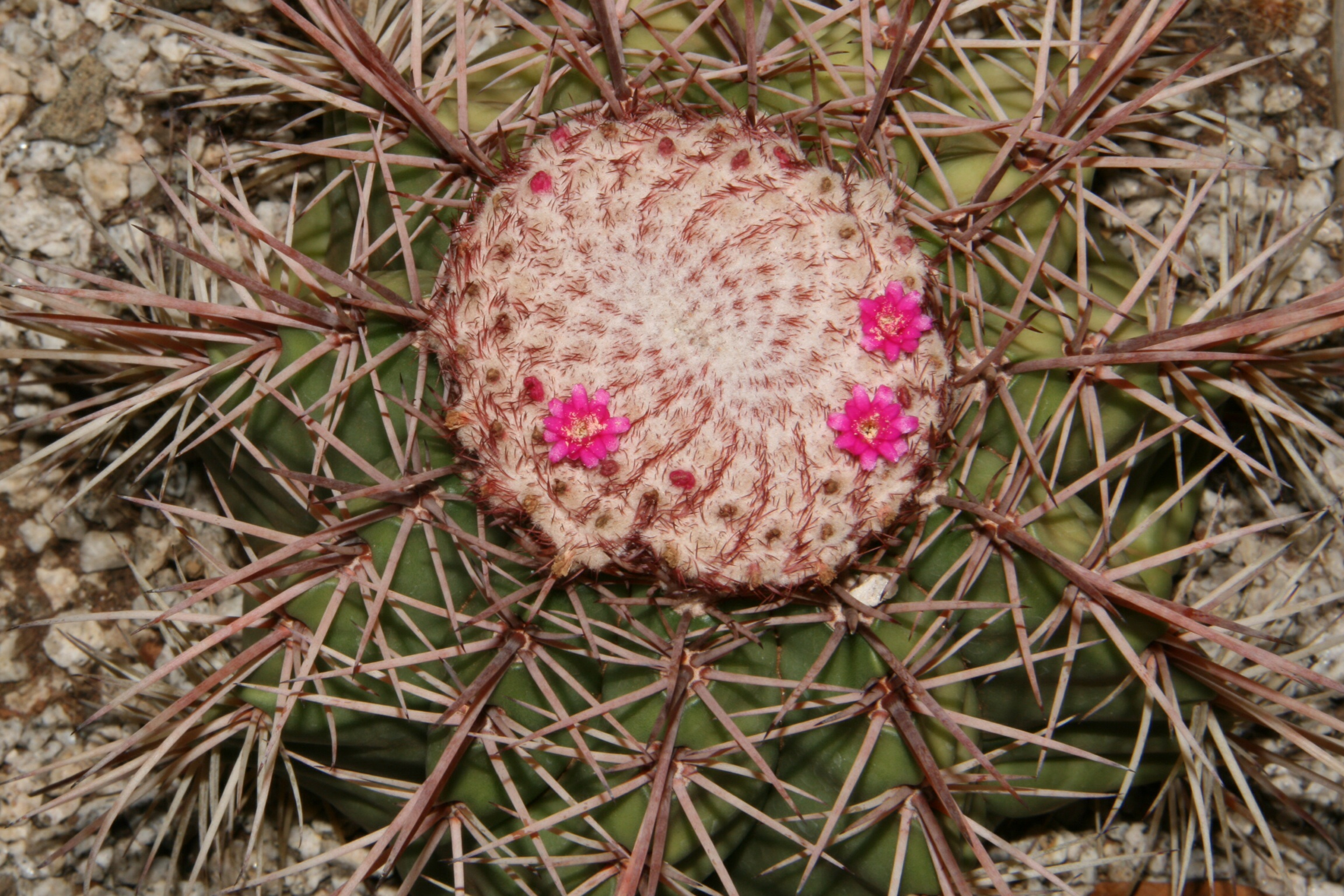 S Bahia, Brasil